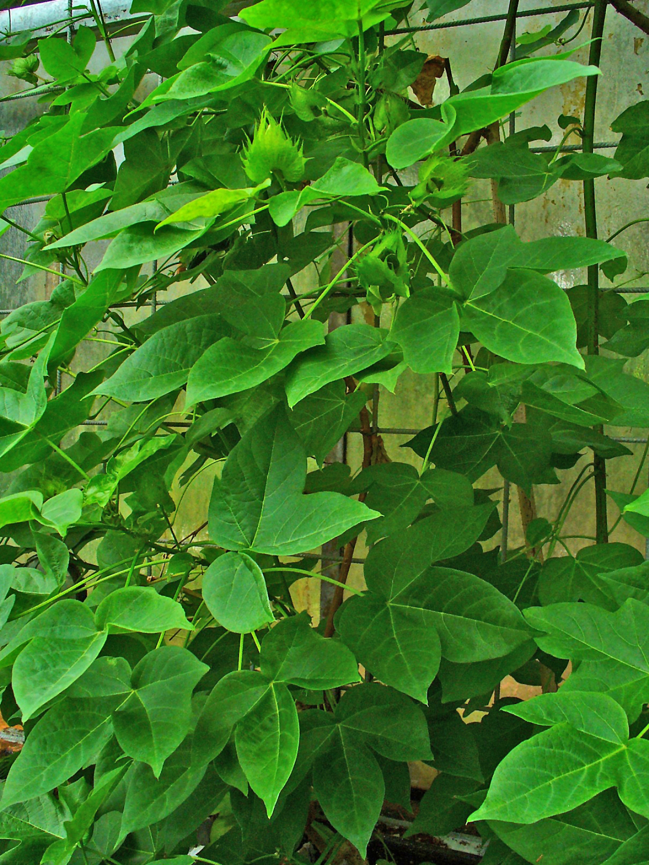 Gossypium herbaceum, Malvaceae, Levant Cotton, habitus; Botanical Garden KIT, Karlsruhe, Germany. The fresh, inner rootbark is used in homeopathy as remedy: Gossypium herbaceum (Goss.)